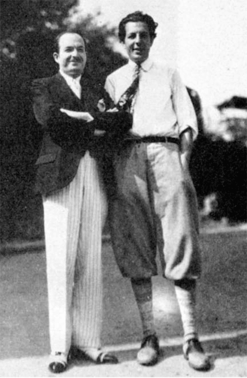 Family file